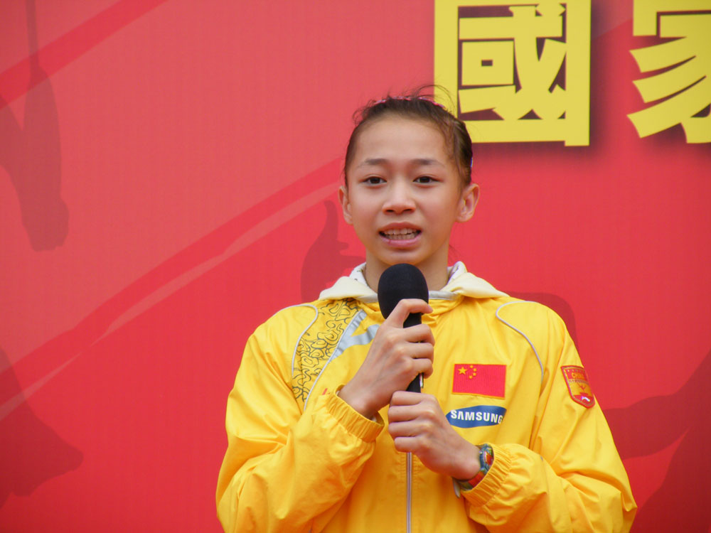 Yang Yilin(楊伊琳) in the Q & A section during the official visit in Hong Kong Polytechnic University on 2008.11.19.